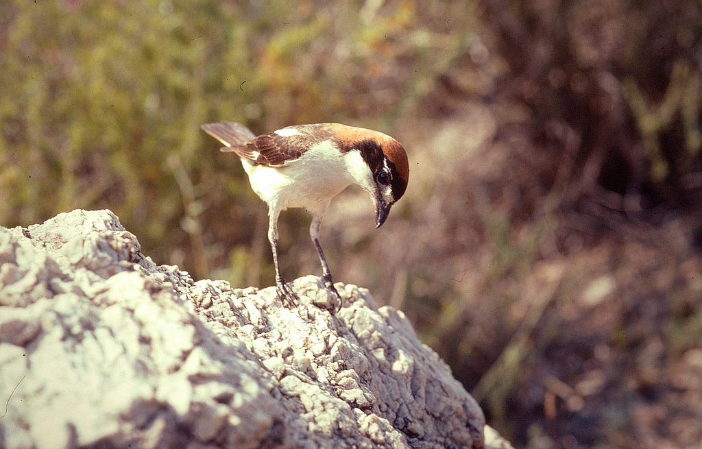 Woodchat Shrike hunting.